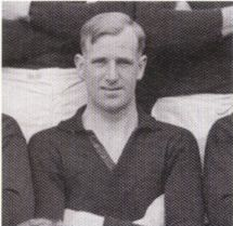 Australian rules football player, Maurie Gibb